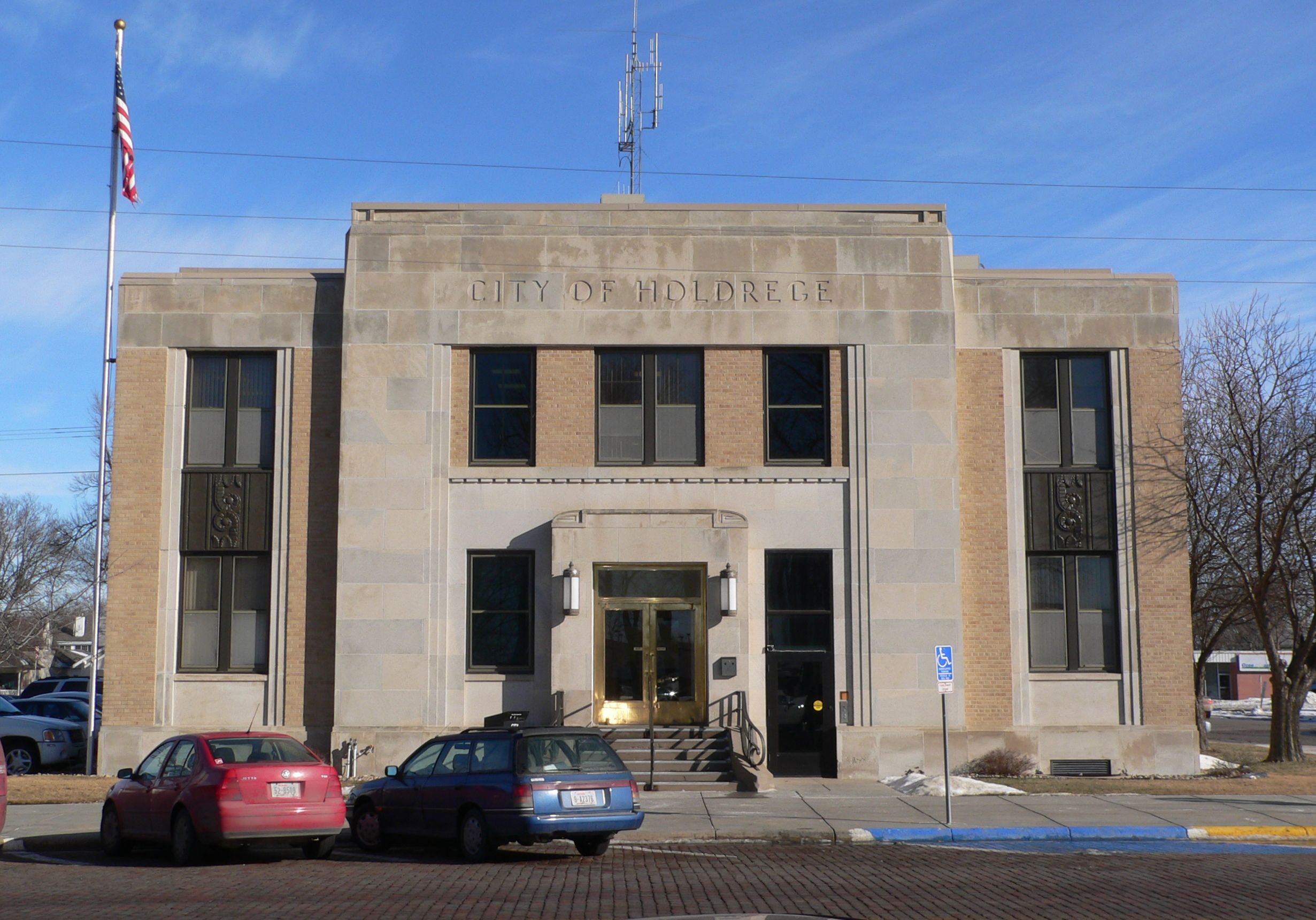 City hall in Holdrege, Nebraska, seen from the west. The Art Deco building was designed by architects John Latenser & Sons, and built in 1939. It is located at the northeast corner of 5th Ave. and East Ave.